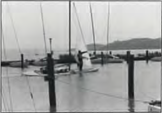 The 1989 Soling World's that wasn't.